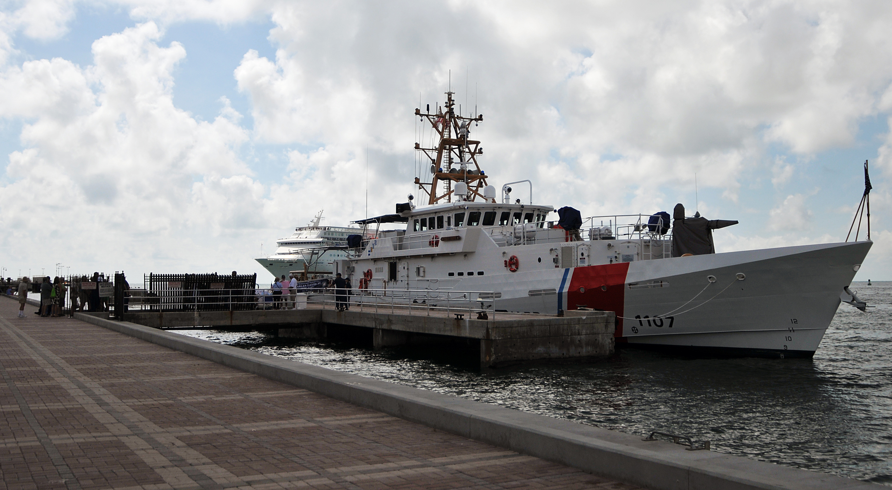 USCGC Charles David jr pulls into Mallory Square. Original caption: “The U.S. Coast Guard Fast Response Cutter Charles David, Jr. (WPC 1107), moors at Mallory Square for public tours. The cutter's commissioning ceremony, sponsored by the Key West Navy League Commissioning Committee, is Nov. 16. U.S. Navy photo by Mass Communication Specialist 2nd Class Brian Morales/ Released”